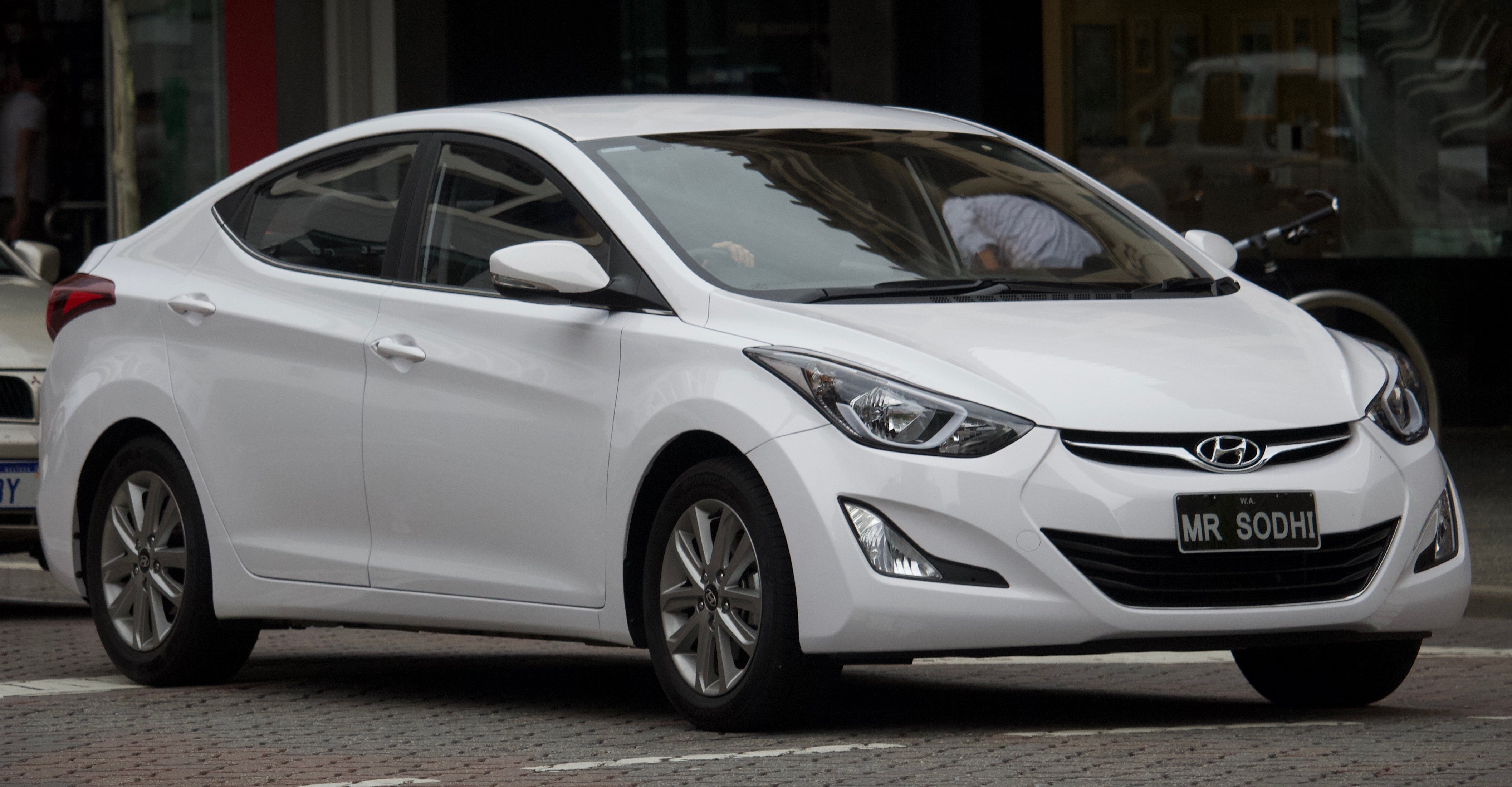 2014-2015 Hyundai Elantra (MD3) SE sedan. Photographed in Perth, Western Australia, Australia.